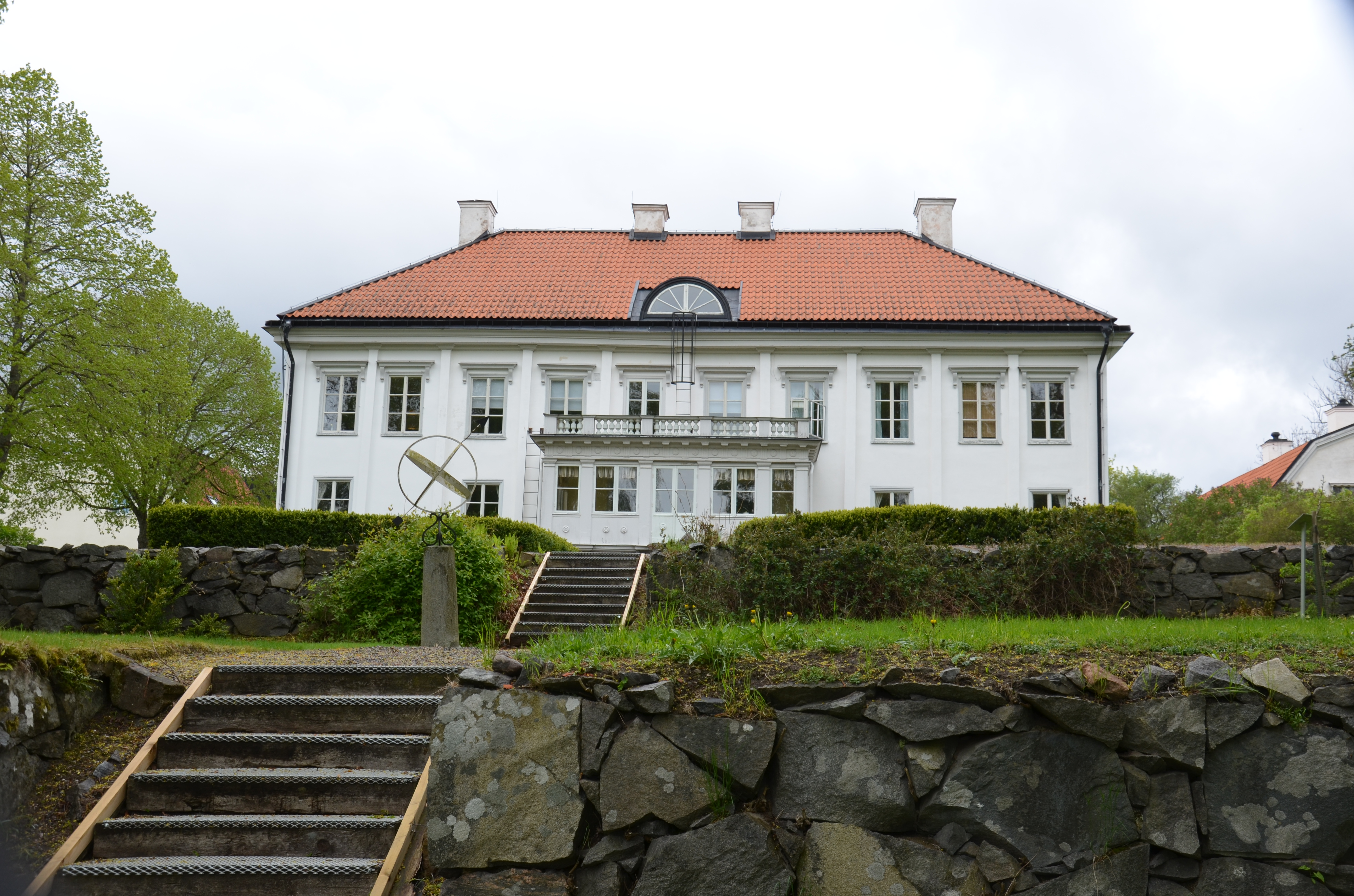 Marieborgs herrgård in Norrköping. Seaside facade of the mansion.